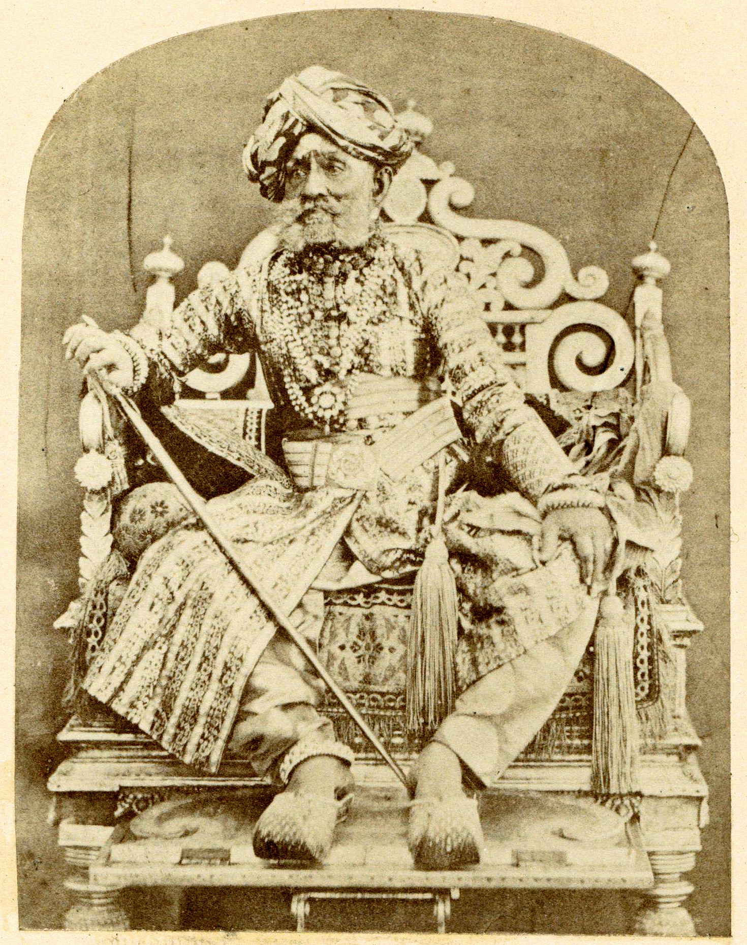 Krishnaraja Wadiyar III (1794-1868), ruling Maharaja of the princely state of Mysore in India.